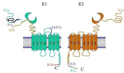 Схема строения субъединиц G-белка